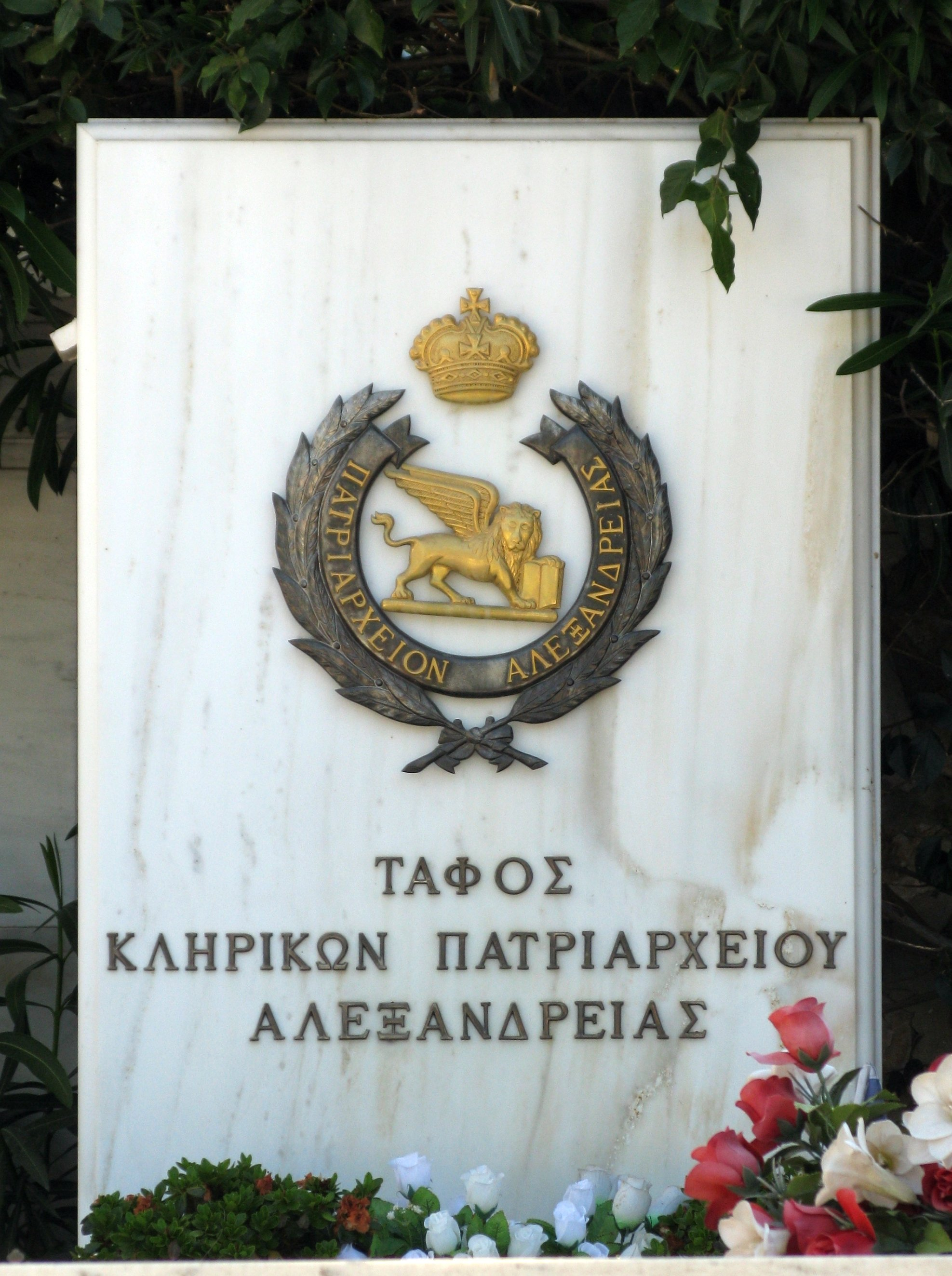 First Cemetery of Athens, tomb of the priests of the Greek Orthodox Patriarchate of Alexandria